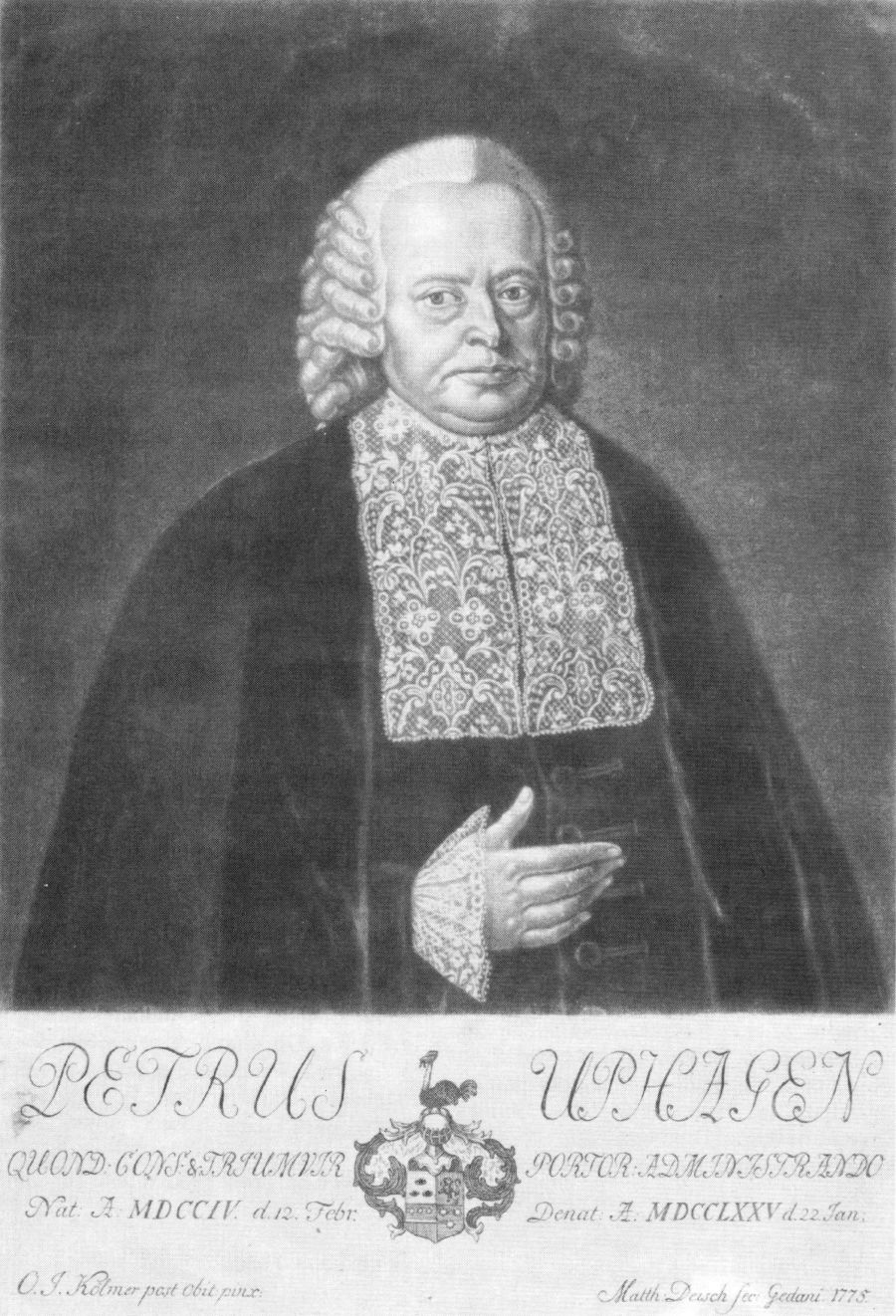 Peter Uphagen, merchant and councellor of Gdańsk (Danzig)